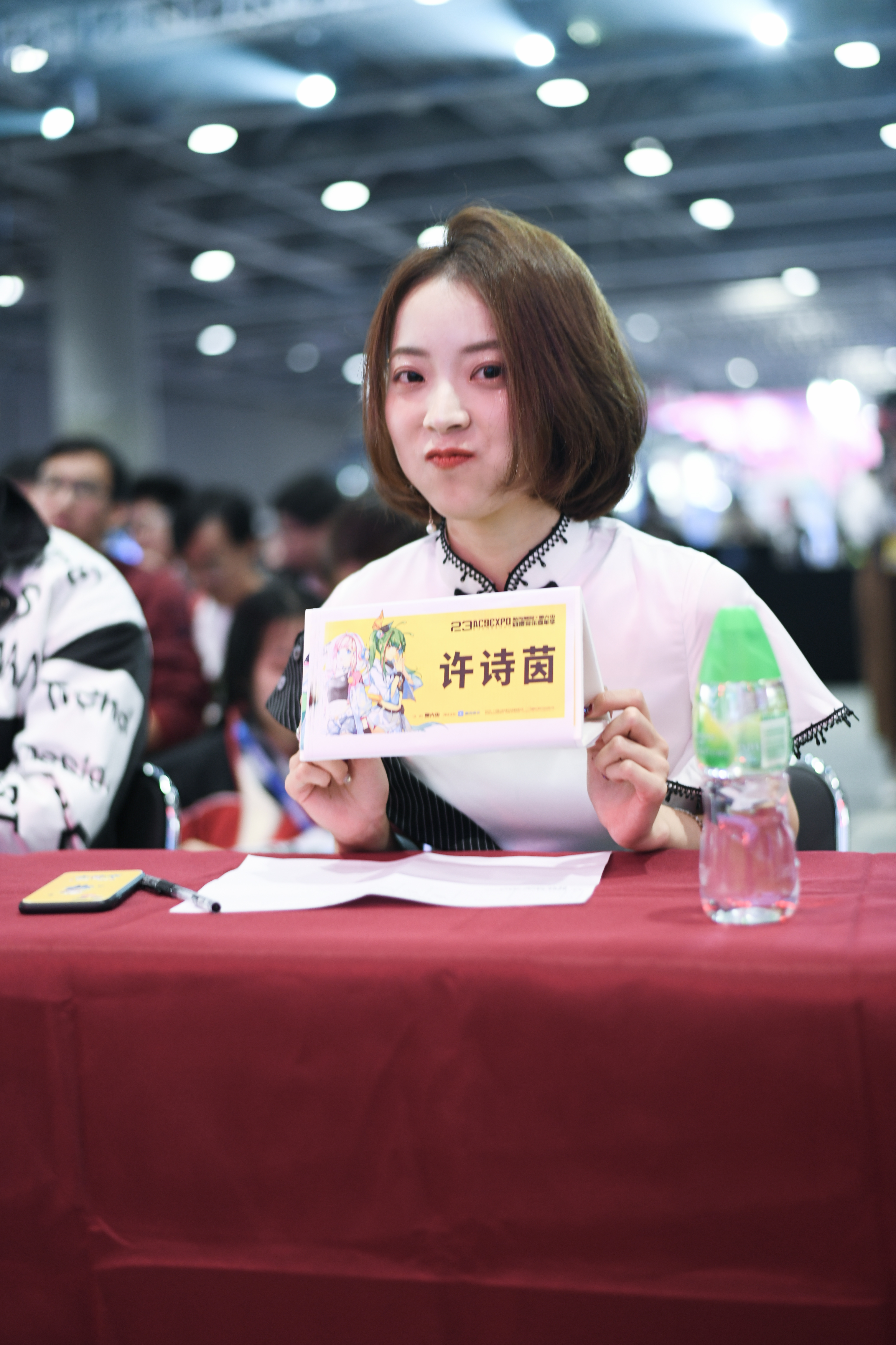 Valentina Xu as judge in the kugou music competition, Dec 2019